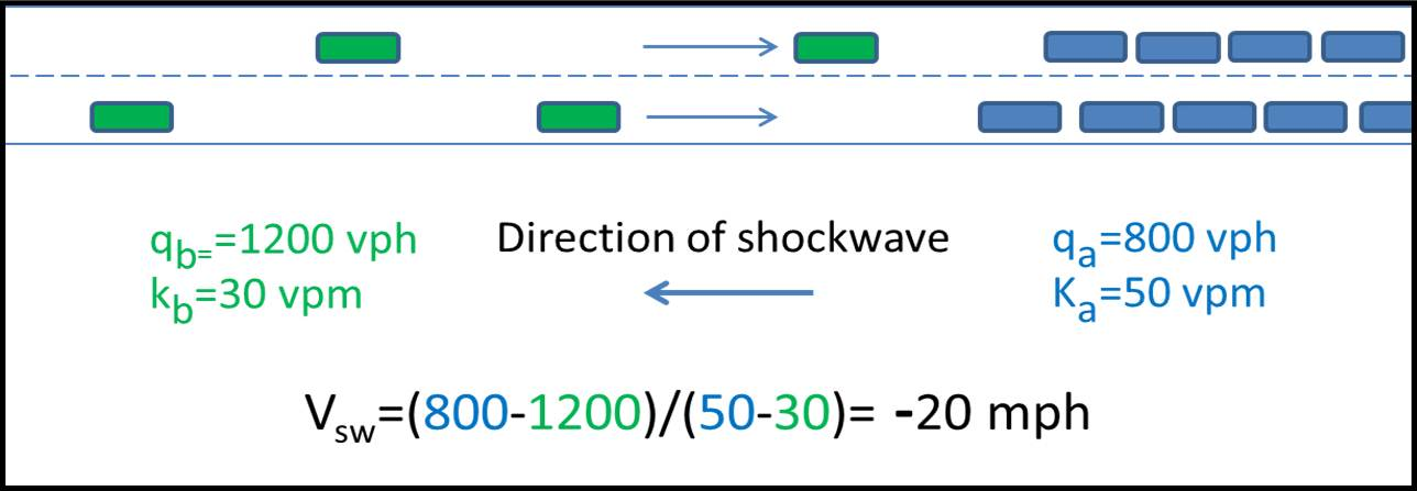 Illustration of shockwave behavior in vehicular traffic